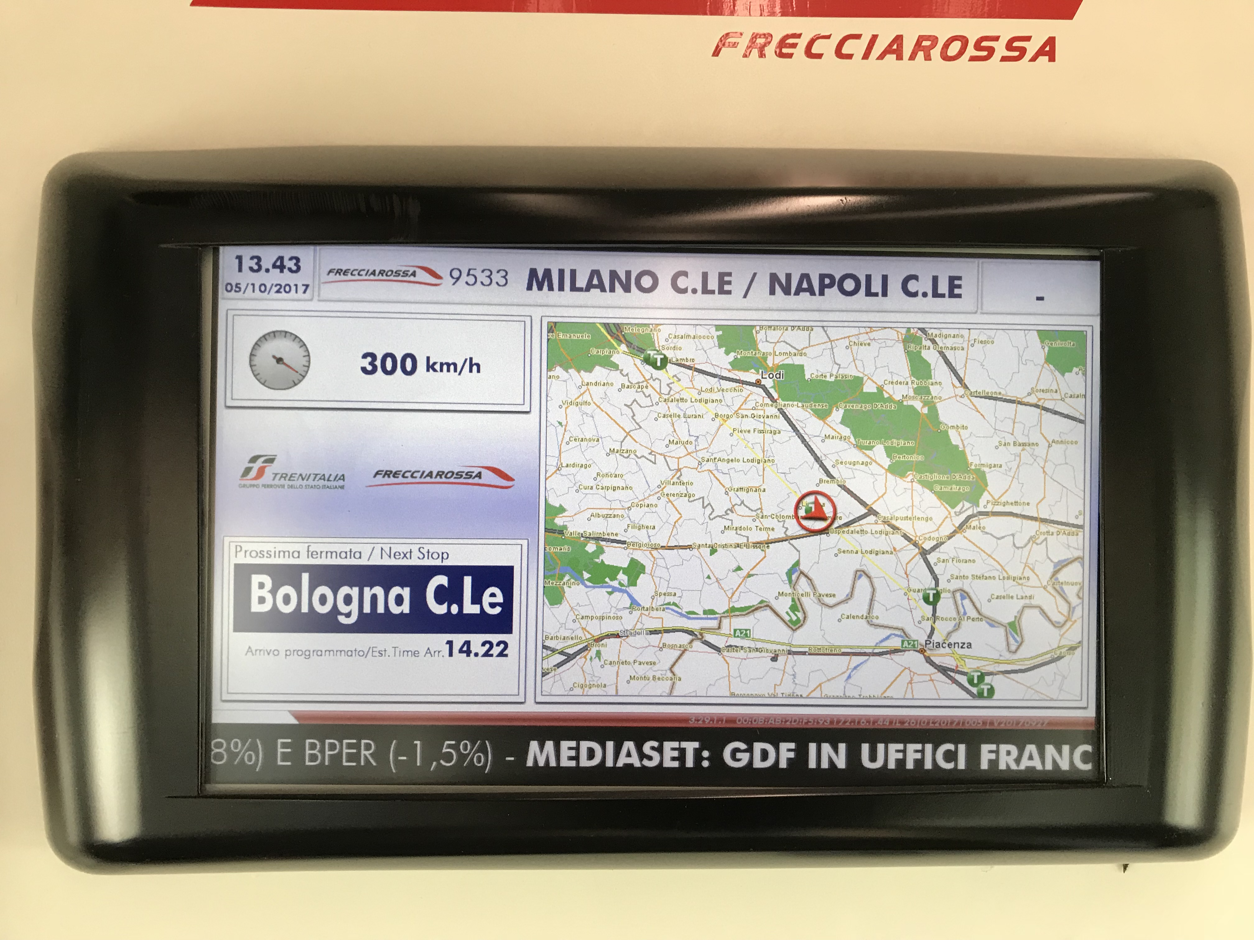 speed display of Italian FS ETR 1000